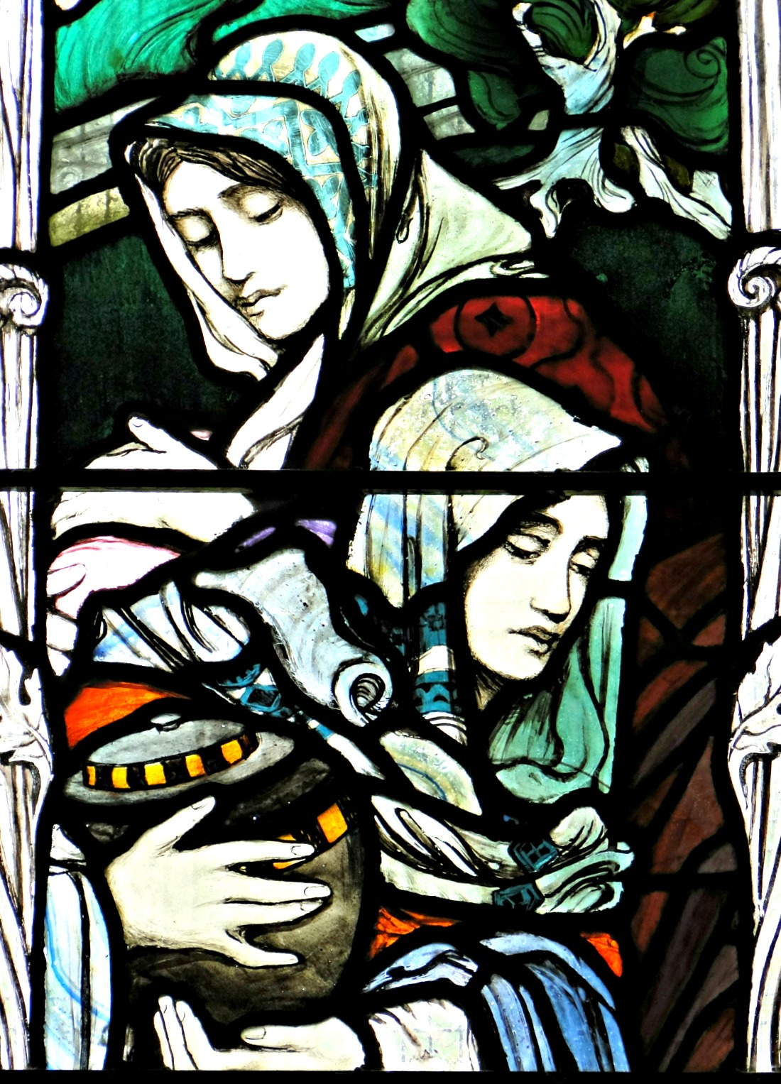 South window, Sturminster Newton, Dorset, 1906 by Mary Lowndes in memory of her father, who was vicar at the church for 36 years